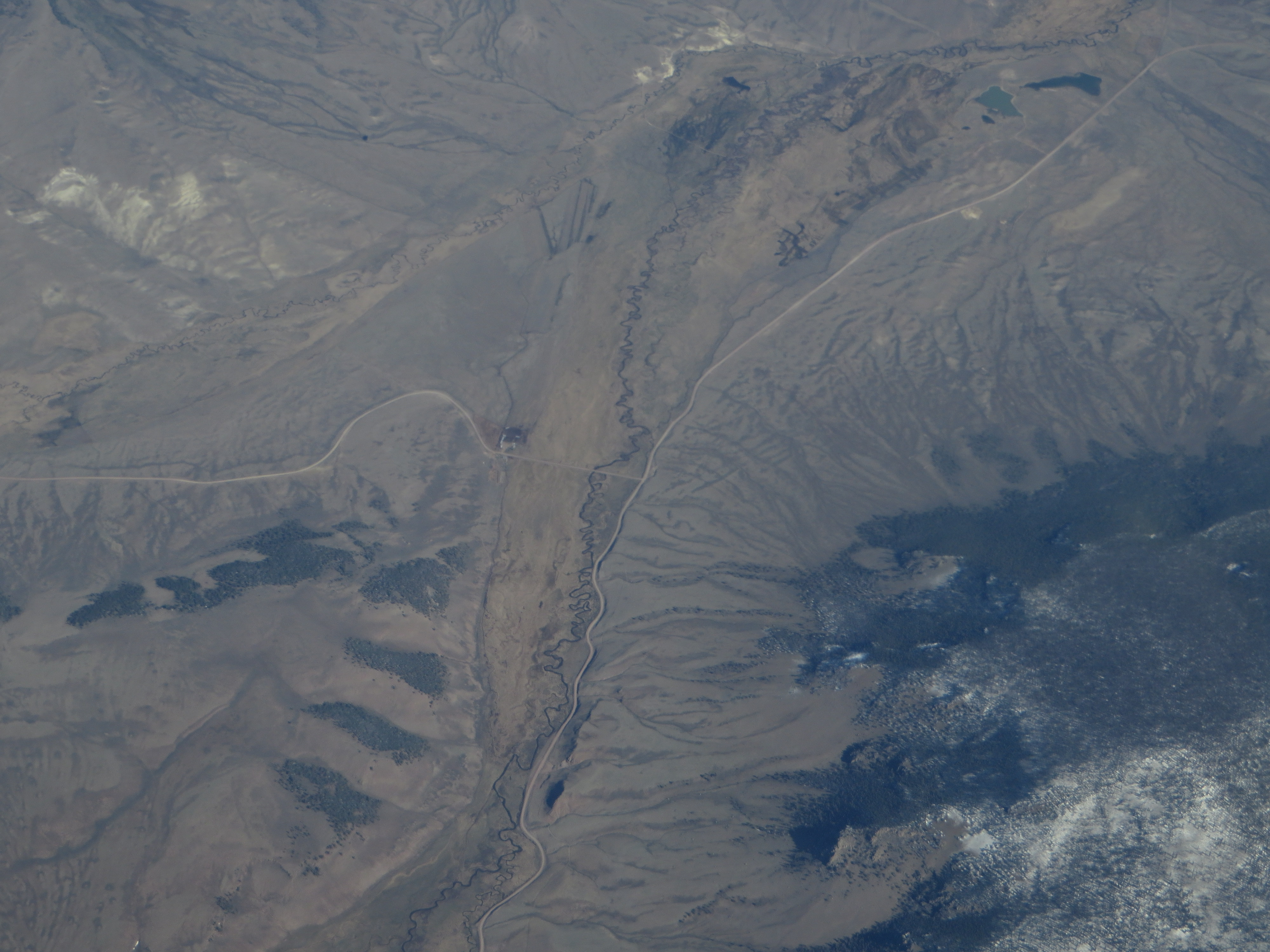 The Cochetopa Hills are a ridge of uplands on the Continental Divide in southern Colorado, United States. The ridge bridges the southern terminus of the Sawatch Range to the northern terminus of the La Garita Mountains. The Cochetopa Hills are characterized by rolling terrain with peaks between 11,000 and 12,000 feet (3,400 and 3,700 m) and noteworthy volcanic geology. The Sawatch Range to the northeast and the La Garita Mountains to the south are characterized by higher peaks. On USGS topographic maps, the area labeled as the Cochetopa Hills is roughly bounded by 13,269-foot (4,044 m) Antora Peak, the town of Sargents, the drainage of Cochetopa Creek, and the town of Saguache. North Pass on State Highway 114 and the backcountry Cochetopa Pass allow passage from the upper Rio Grande drainage on the east to the upper Gunnison River drainage to the west. The practice of naming mid-elevation upland areas in central and southern Colorado using the word hills was also illustrated by the naming of the similar uplands between the upper Arkansas valley and South Park: the Arkansas Hills.